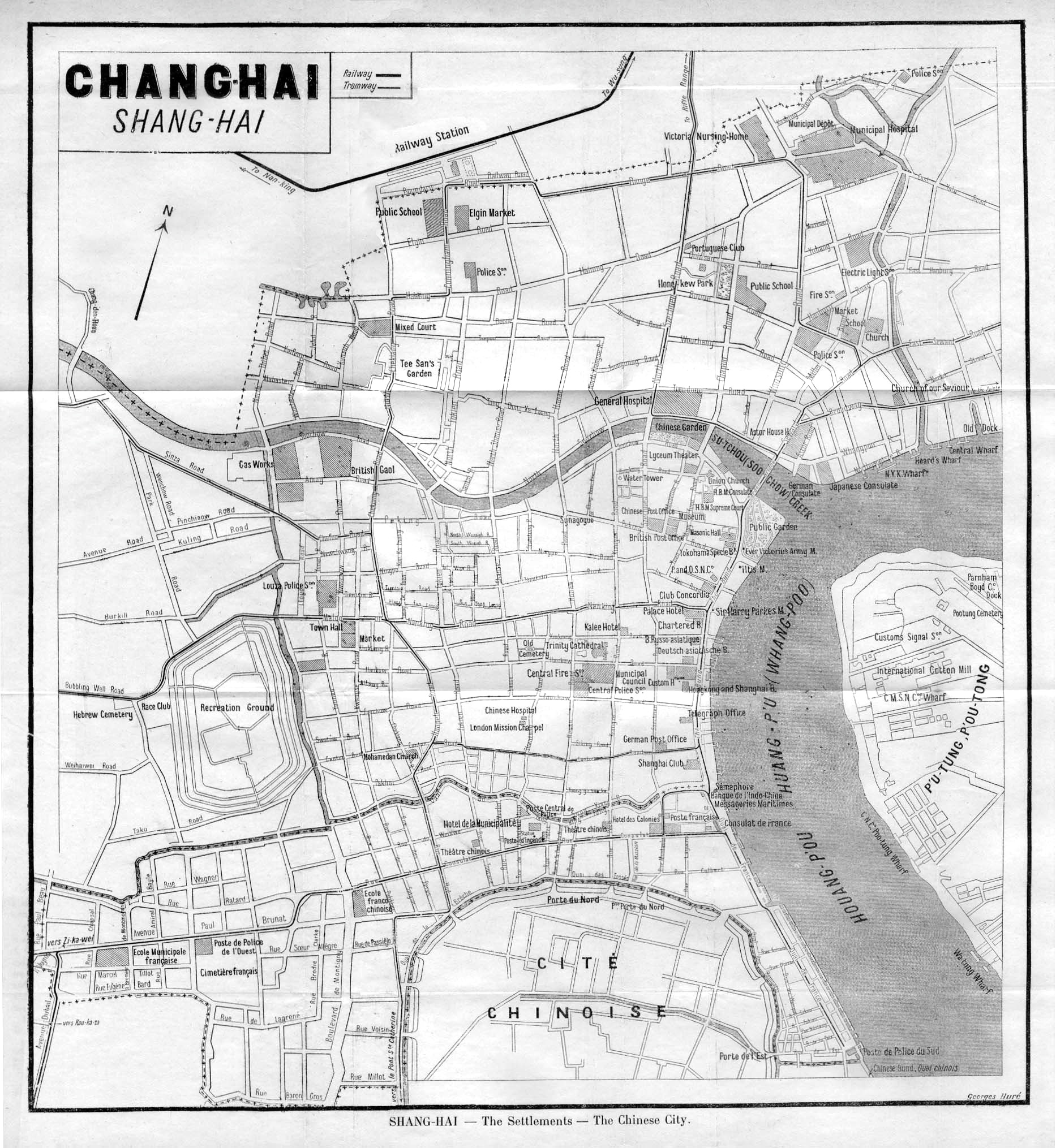 Map of Shanghai